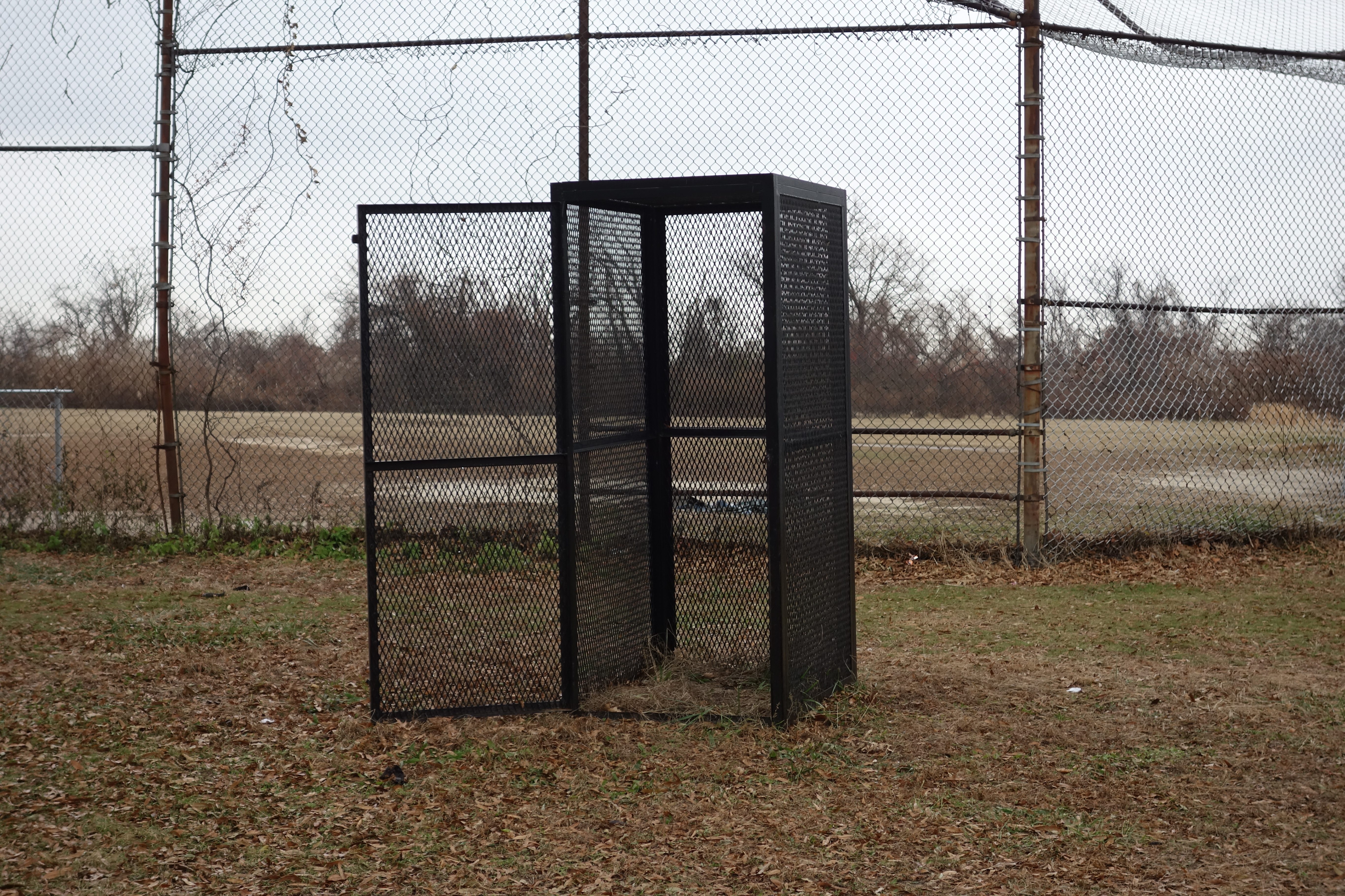 A mosquito magnet in front of the baseball diamond of Rockaway Community Park (formerly Edgemere Park), on Almeda Avenue across from the Edgemere Houses in Edgemere, Queens. These contraptions are meant to mitigate the mosquito problem at the park. It appears that some sorts of special plants are placed inside the box in order to attract mosquitoes.